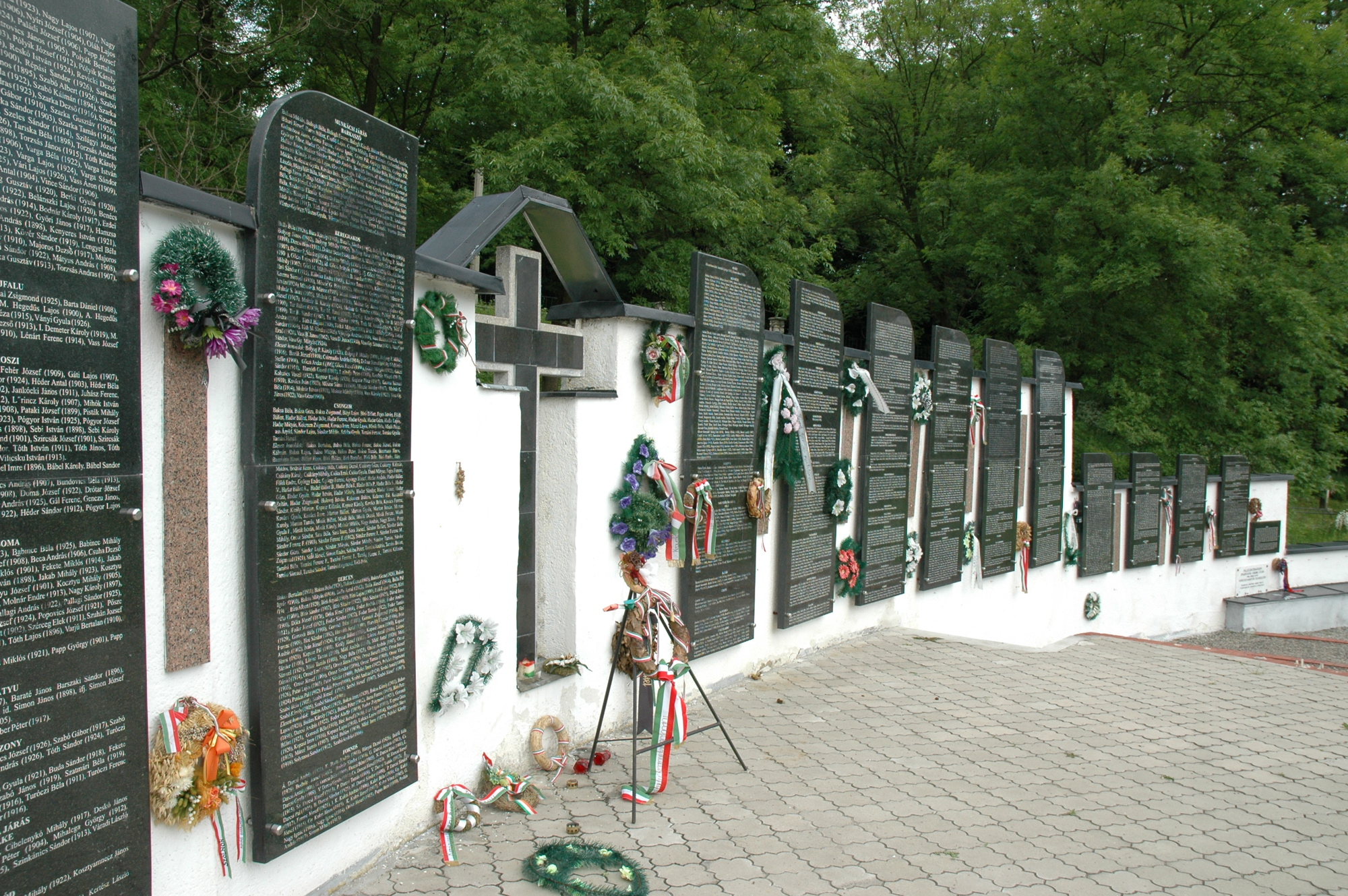 Svaliava Memorial Park, Svaliava, Ukraine